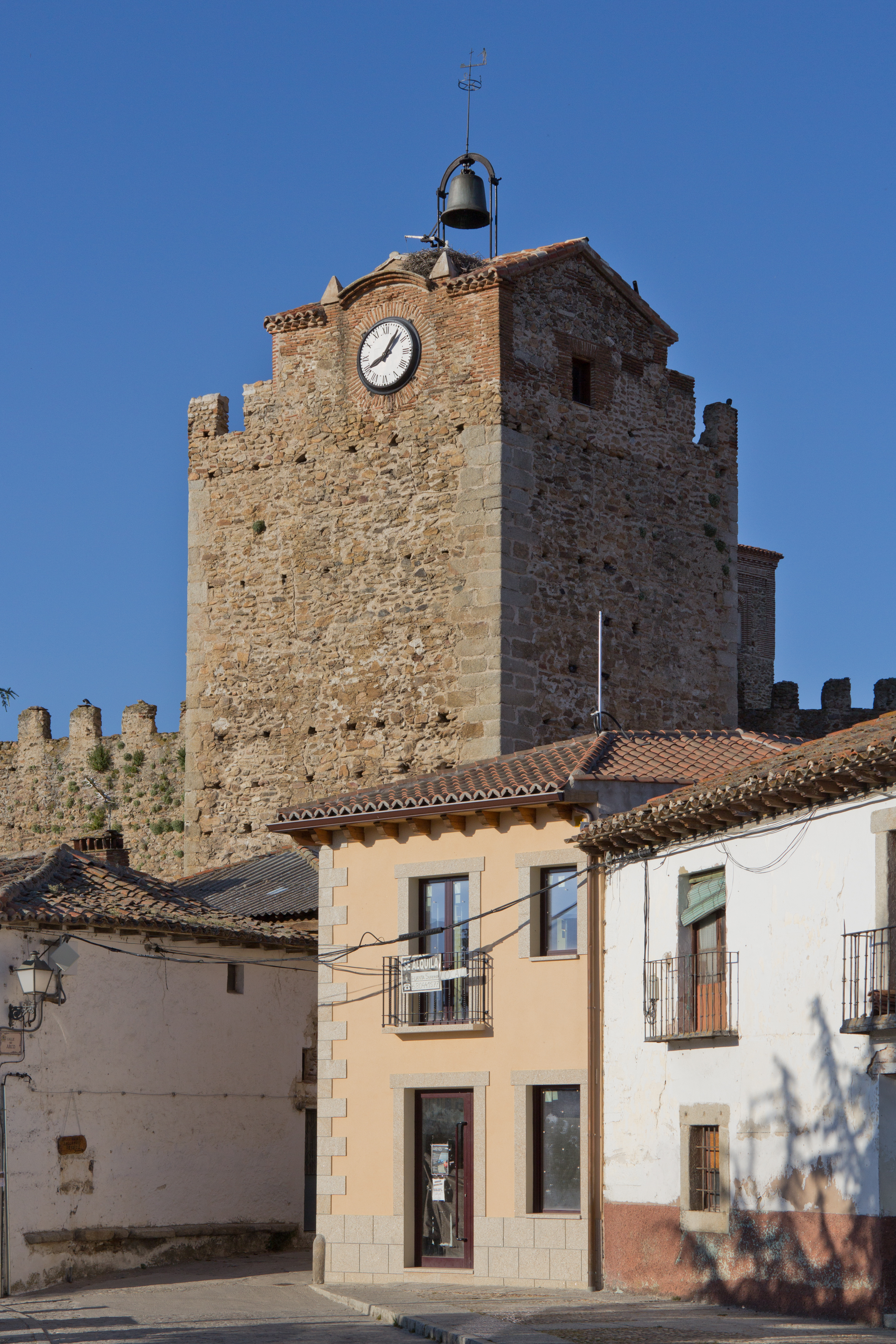 Clock tower of Buitrago del Lozoya, Community of Madrid, Spain.